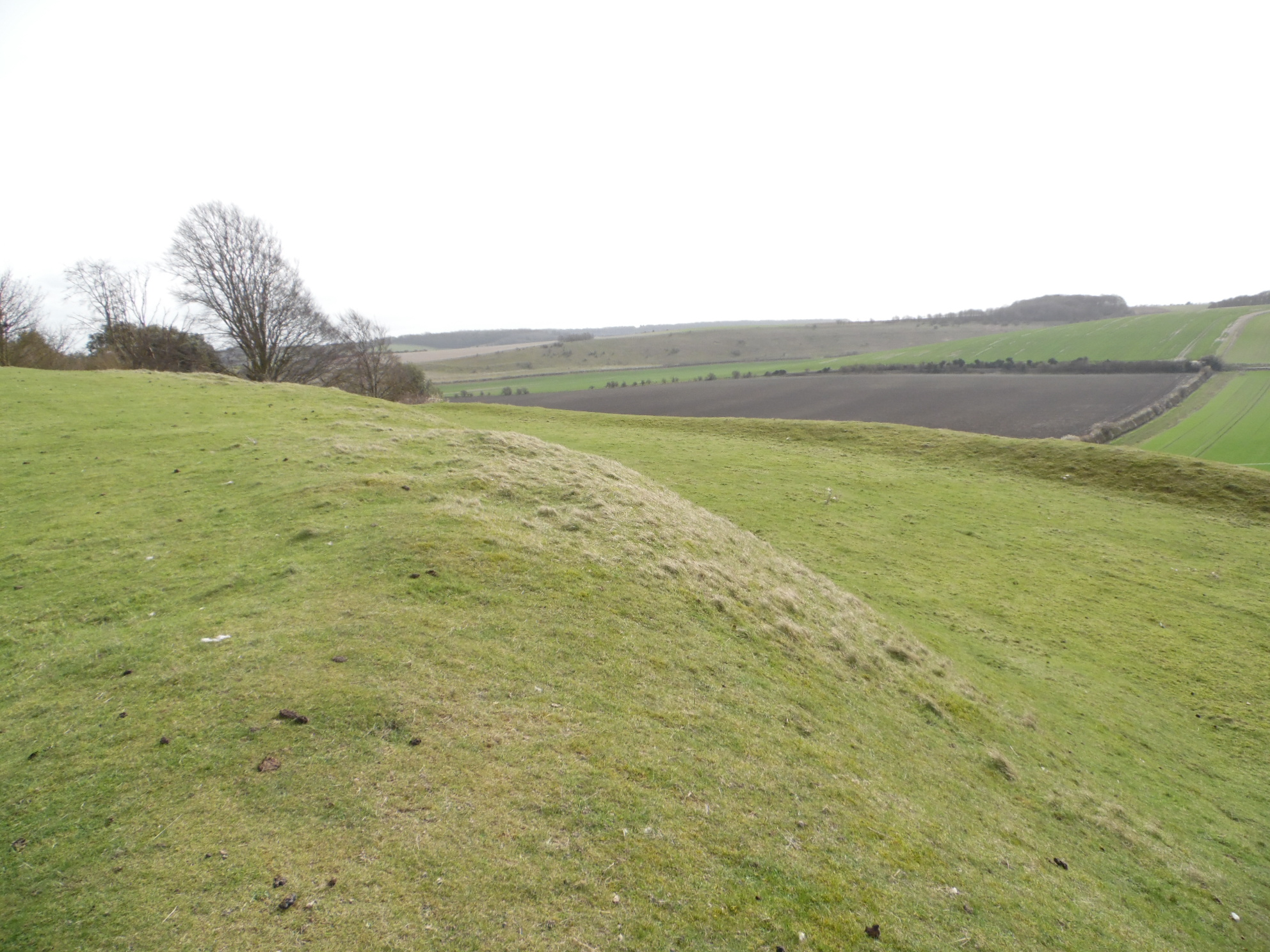 Blewburton Hill - Iron Age hillfort in Oxfordshire.